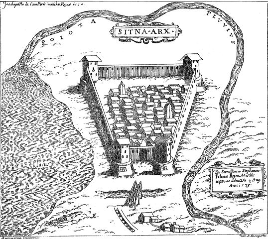 Sitno Castle